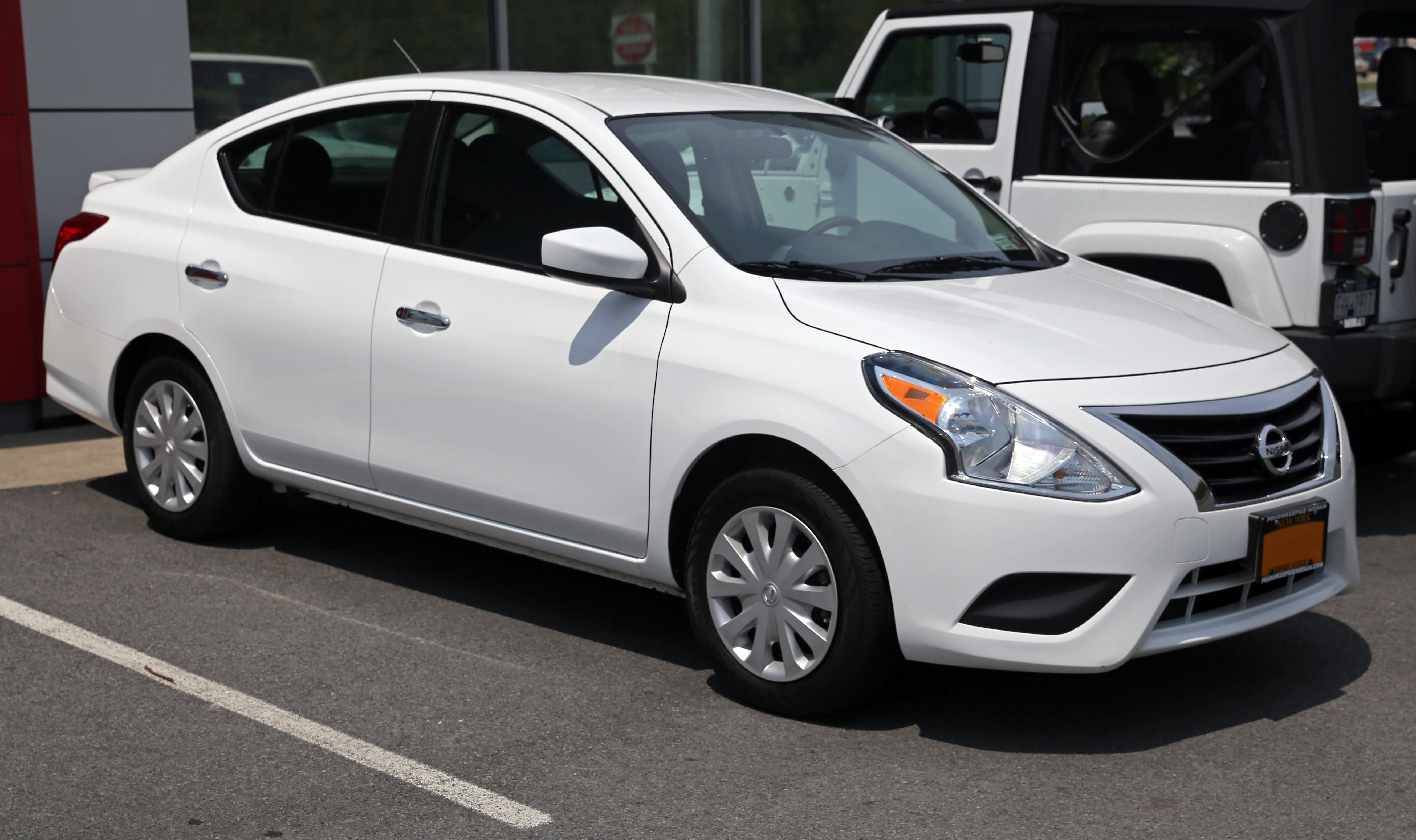 A 2015 Nissan Versa SV. Automatic transmission, lovely hubcaps. First year for facelift model.